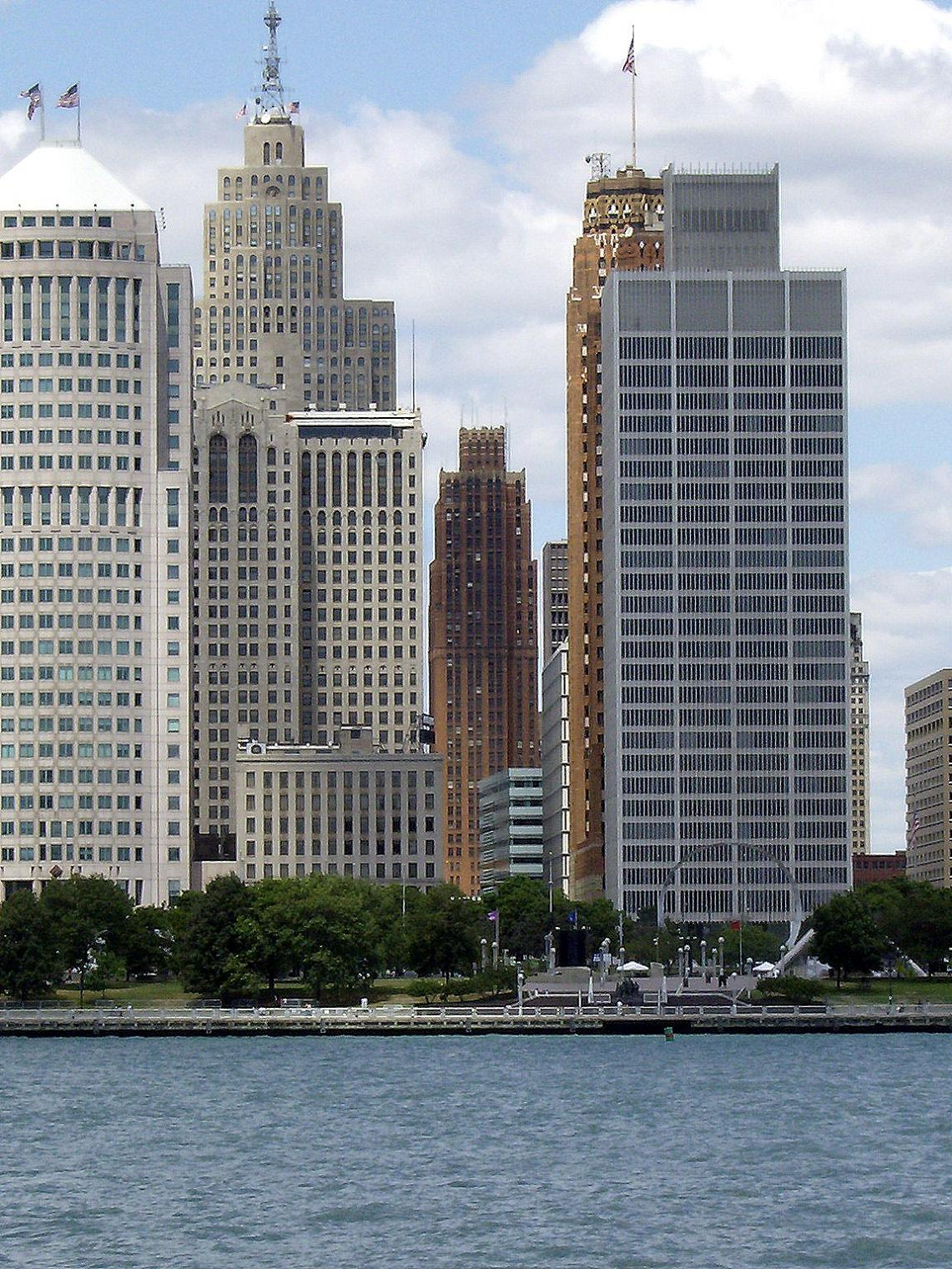 Hart Plaza at the Detroit International Riverfront. The riverfront and Detroit Financial District buildings viewed from across the the Detroit River in Windsor, Ontario, Canada. David Stott Building stands in the distance in the middle looking down Griswold St.